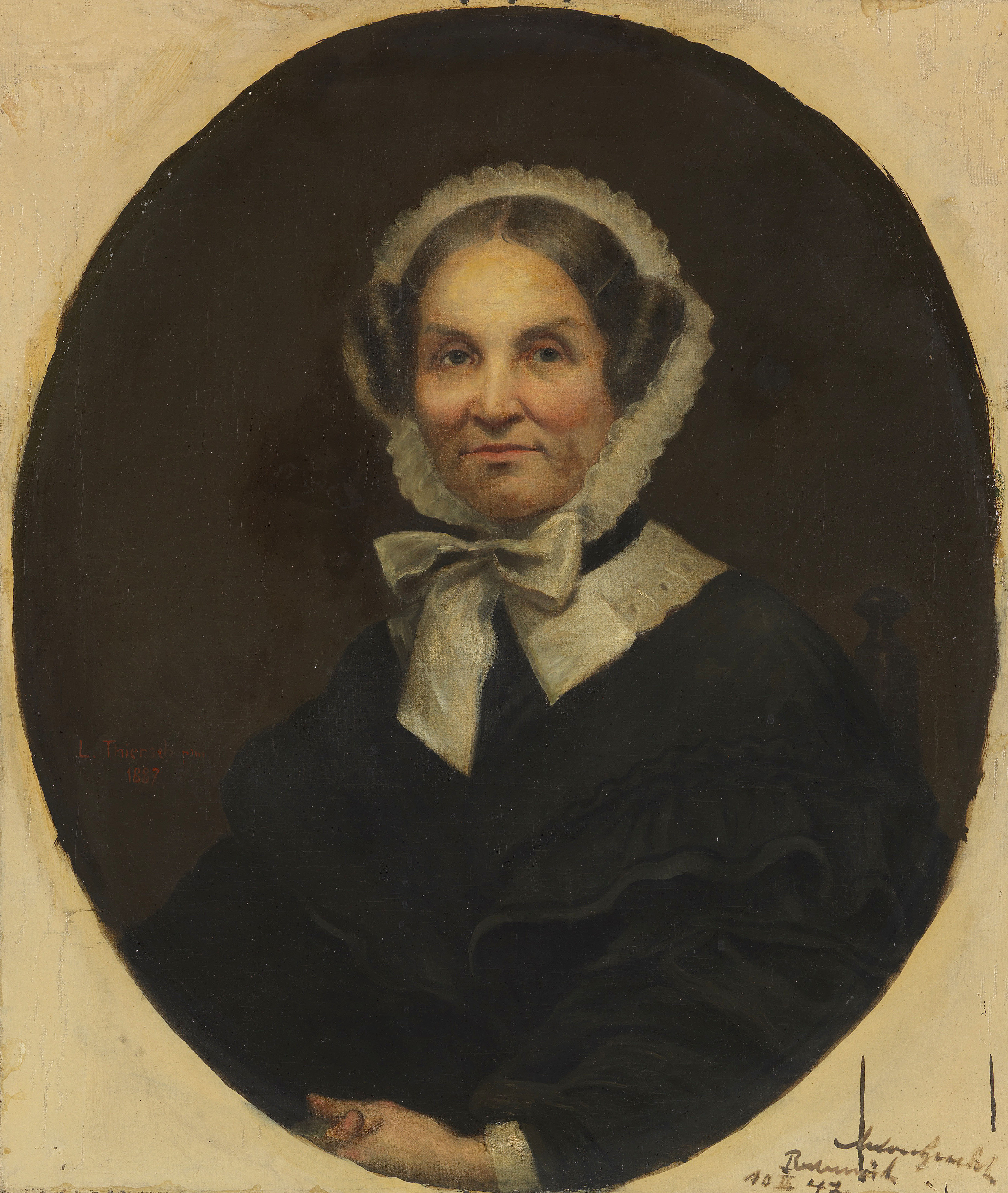 Portrait of the artist's mother